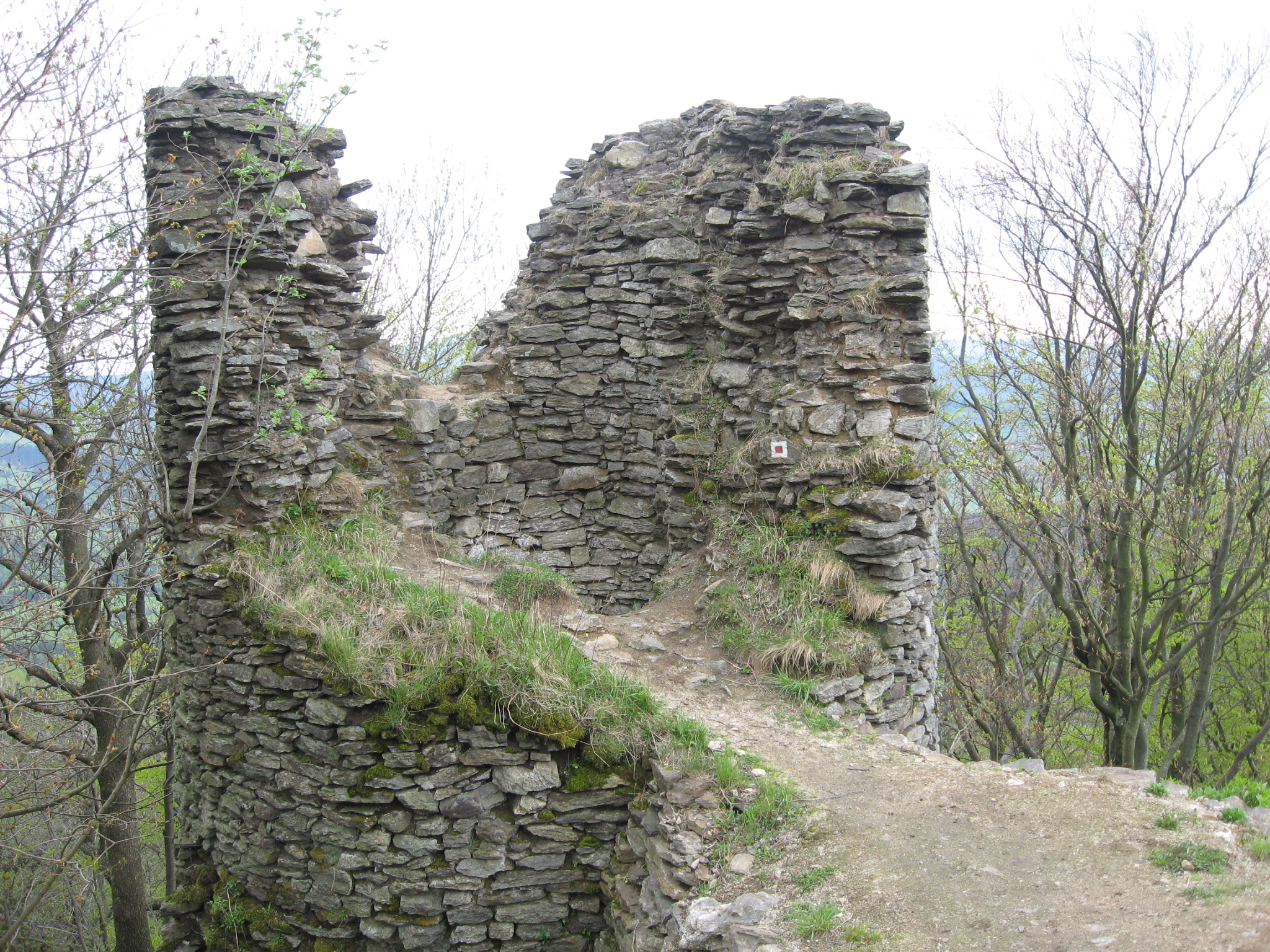 Castle (ruin) Starý Herštejn